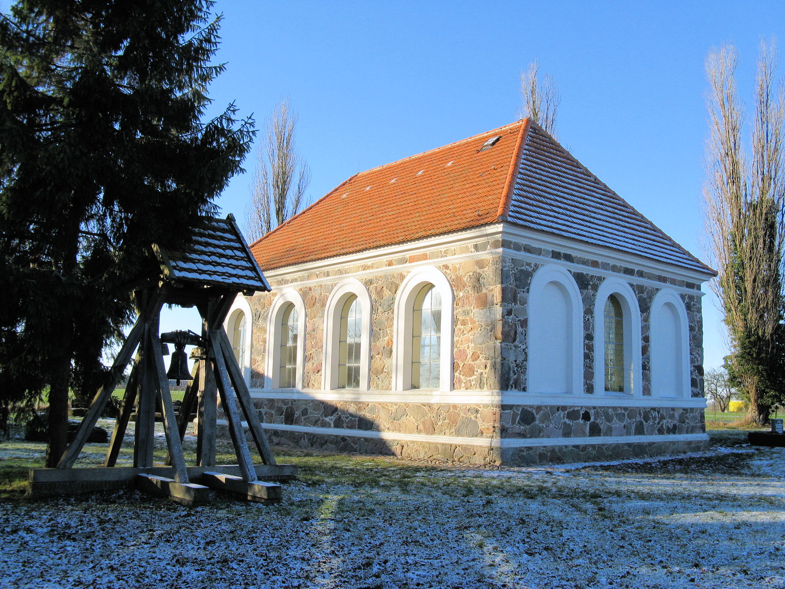 Church in Bakendorf, Mecklenburg-Vorpommern, Germany